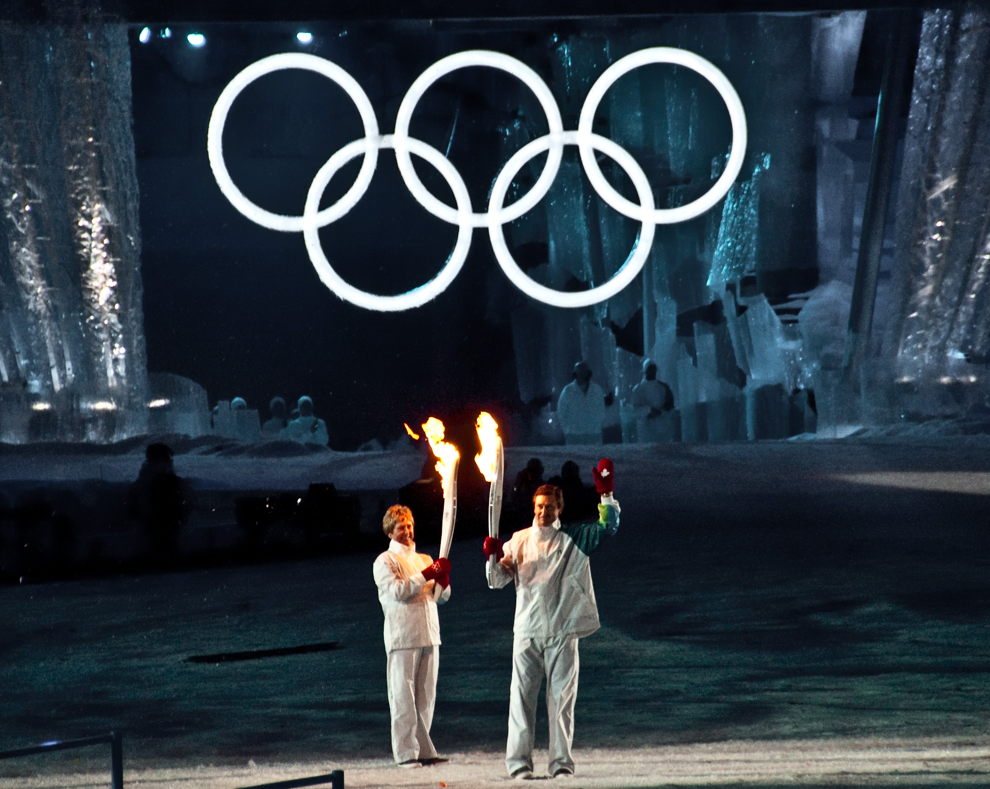 Nancy Greene and Wayne Gretzky, each carrying the Olympic flame, at the 2010 Winter Olympic opening ceremonies